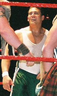 An image of professional wrestler Johnny Jeter.